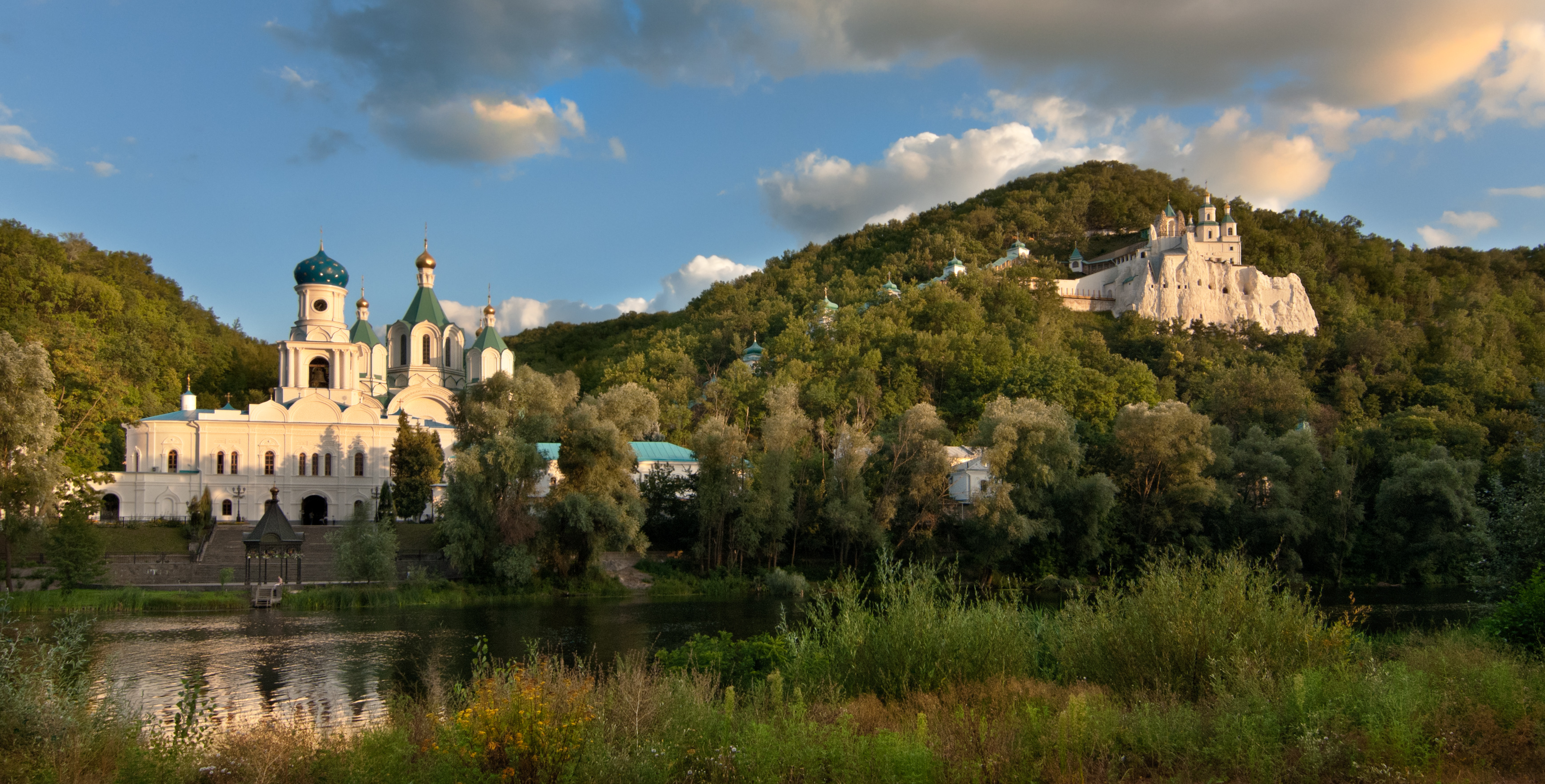 Holy Mountains Lavra (complex of architecture monuments of national significance, Donetsk region, Sviatohirsk).